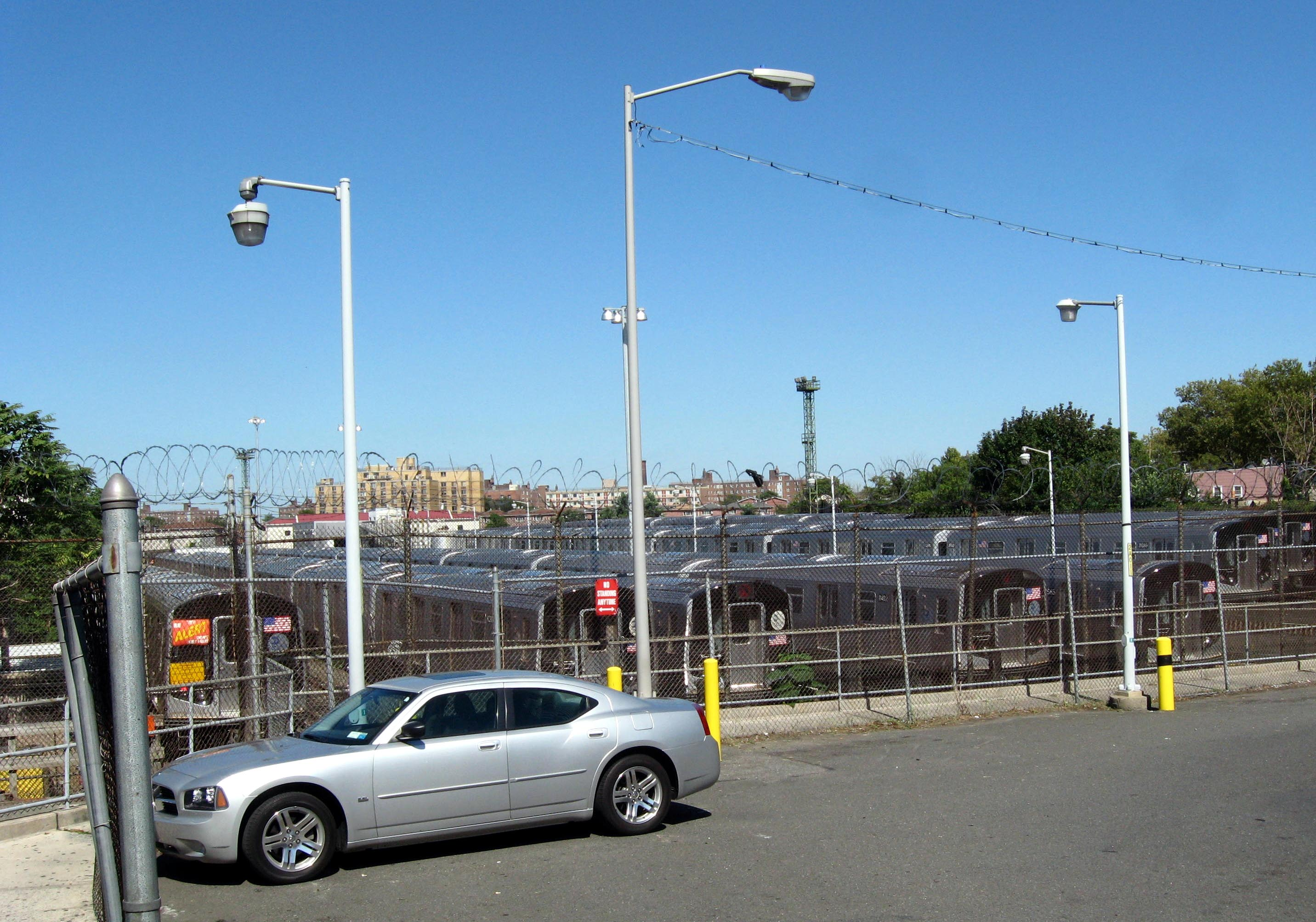 Looking northeast into Canarsie Yard from terminal station on a sunny midday